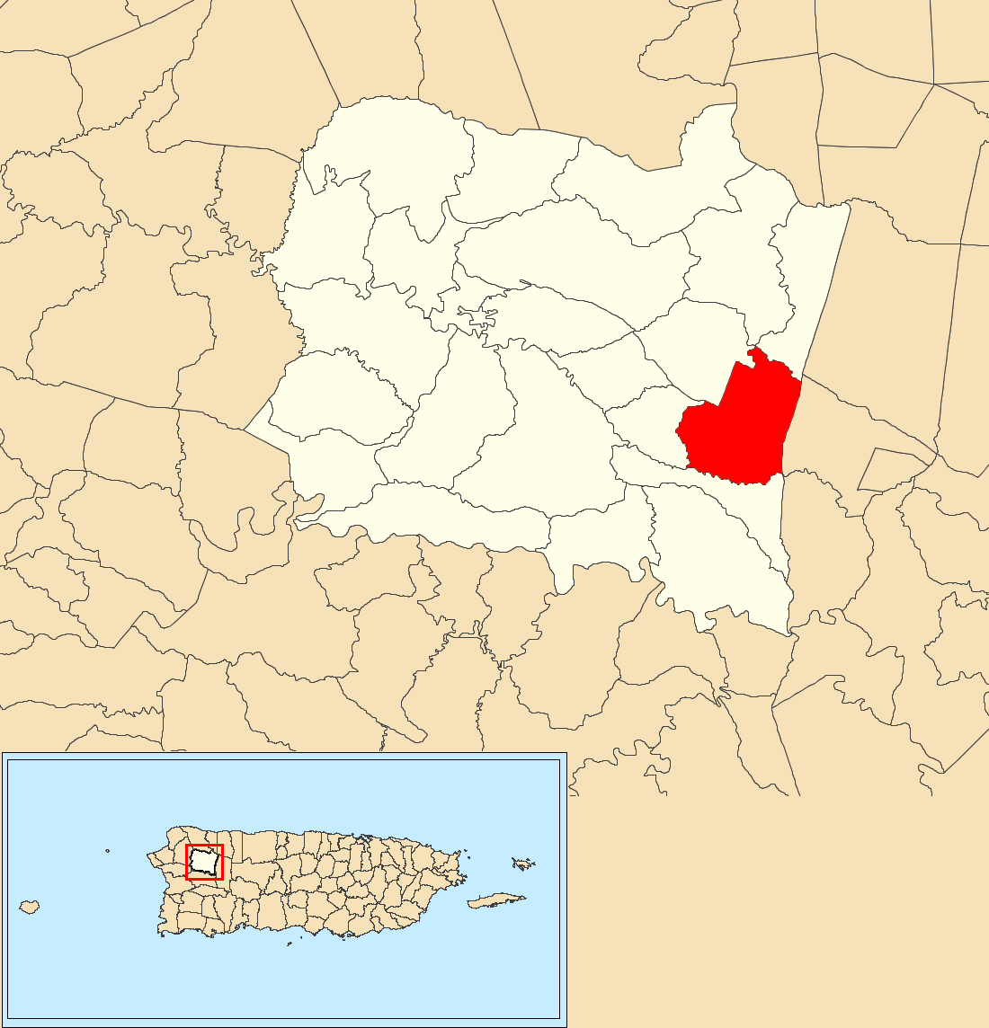 Juncal, San Sebastián, Puerto Rico locator map